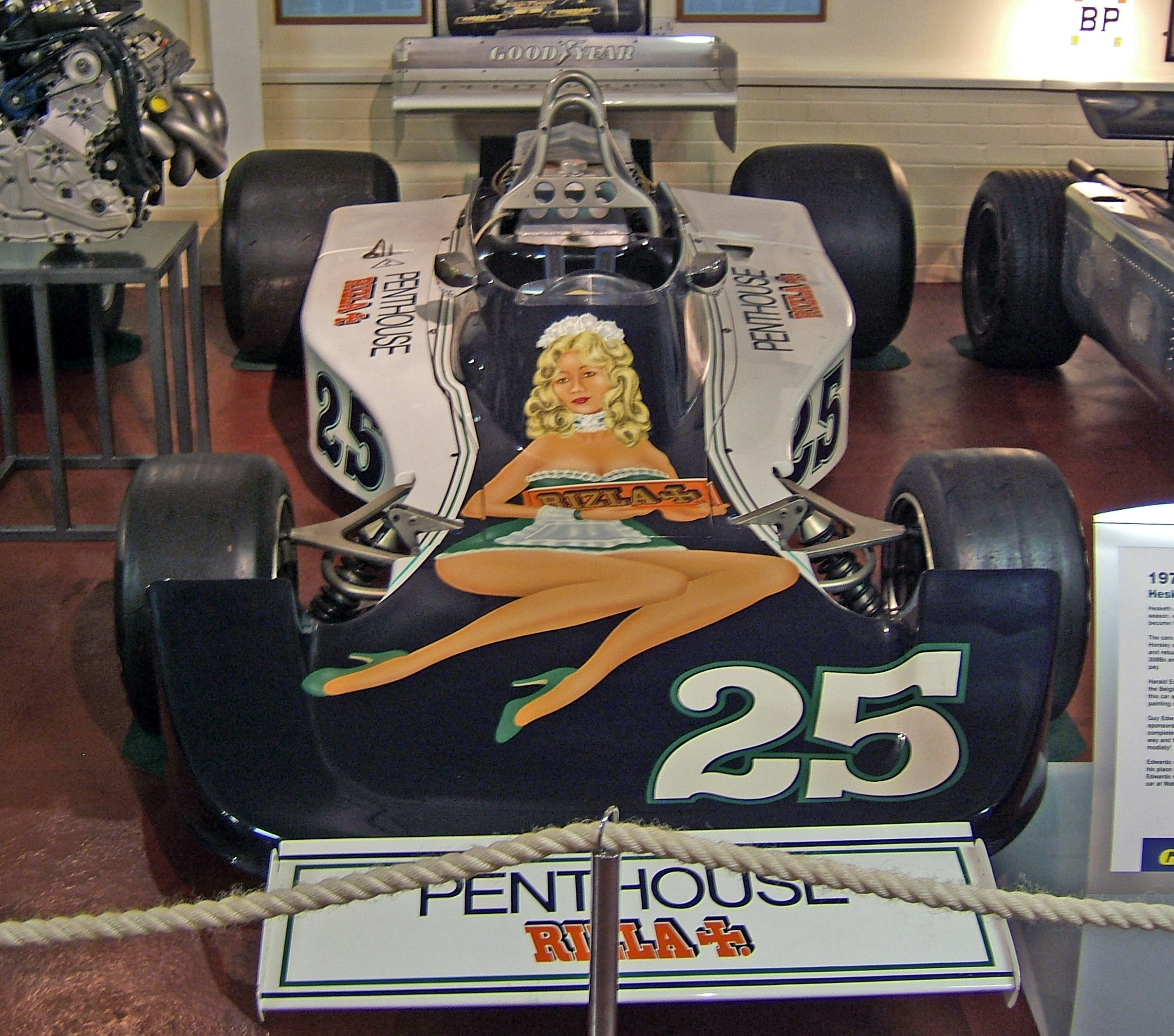 A Hesketh 308D Formula One car of 1976. Image shows well the large painted Penthouse Pet, apparently initially painted topless, but the Rizla packet was added for decency! In the Donington Grand Prix Collection museum, Leics.,UK